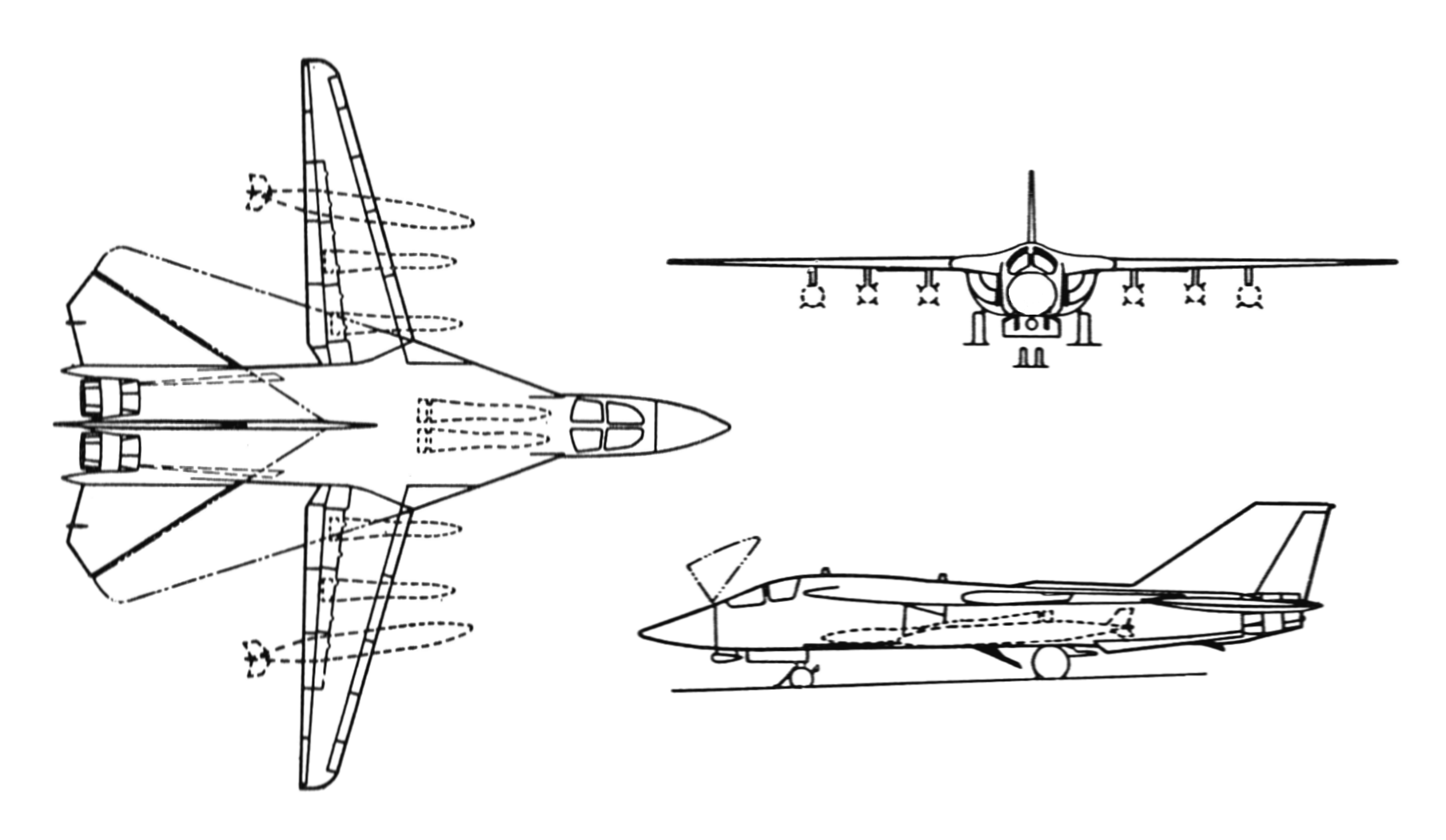 Line drawings for the General Dynamics/Grumman F-111B.